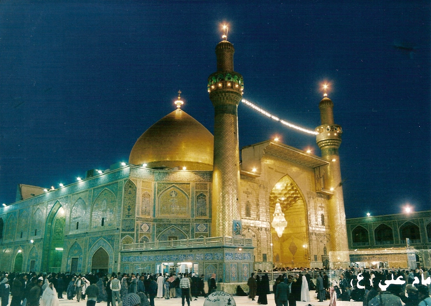 Imam Ali Mosque - Shrine of: 1st Shia Imam - Ali ibn Abi Talib; Prophet Adam; Prophet Nuh. (Najaf, Iraq)